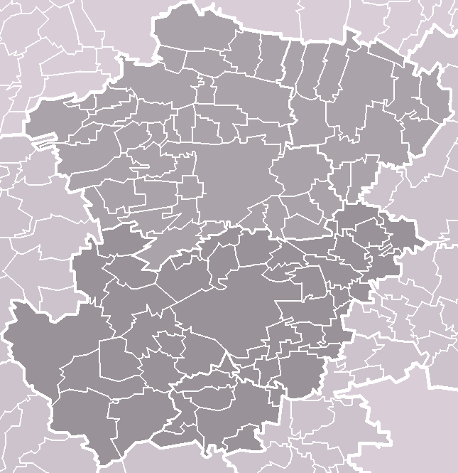 Location of administrative area of Kladno as a Municipality with Extended Competence within Kladno District. Darker grey in southern half of the district represents MEC area of Kladno, lighter grey in northern half represents MEC area of Slaný. White lines of variable thickness show boundaries of municipalities, administrative areas, districts and regions.